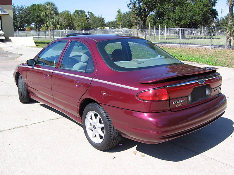 1998-200 Ford Contour SE Sport photographed in USA.